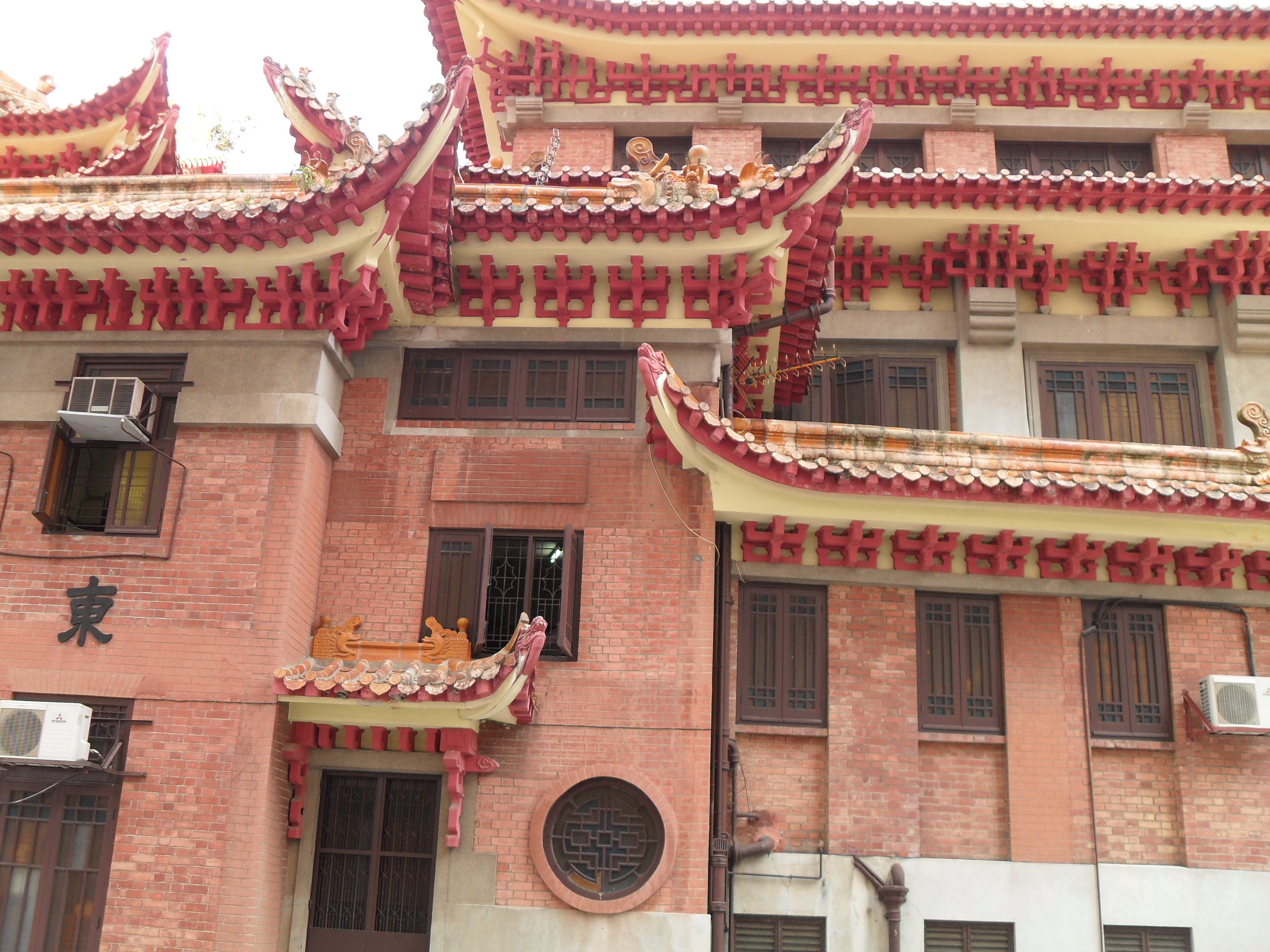 Exterior view of Tung Lin Kok Yuen